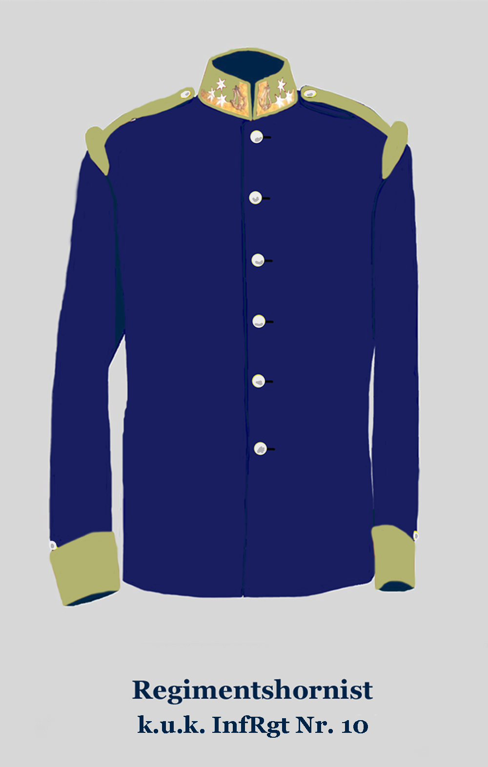 Regimntal Bugler/Drummer of the Austria-Hungarian 10th Infantry Regiment. Parrot-green identification color and white buttons